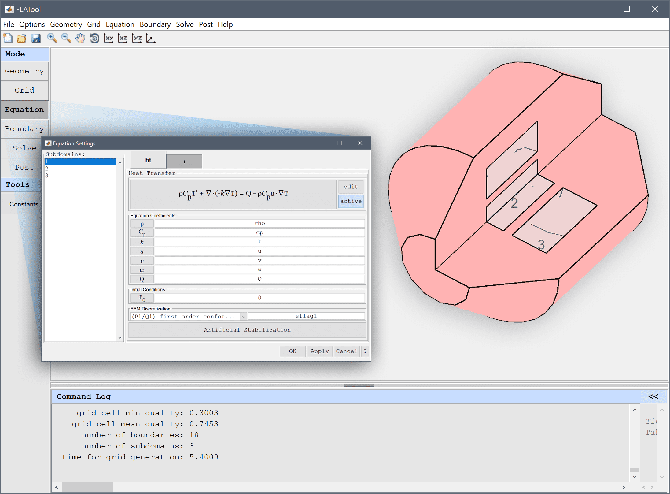 FEATool Multiphysics MATLAB GUI - Equation and Subdomain Mode